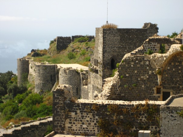 View of Marqab Citadel